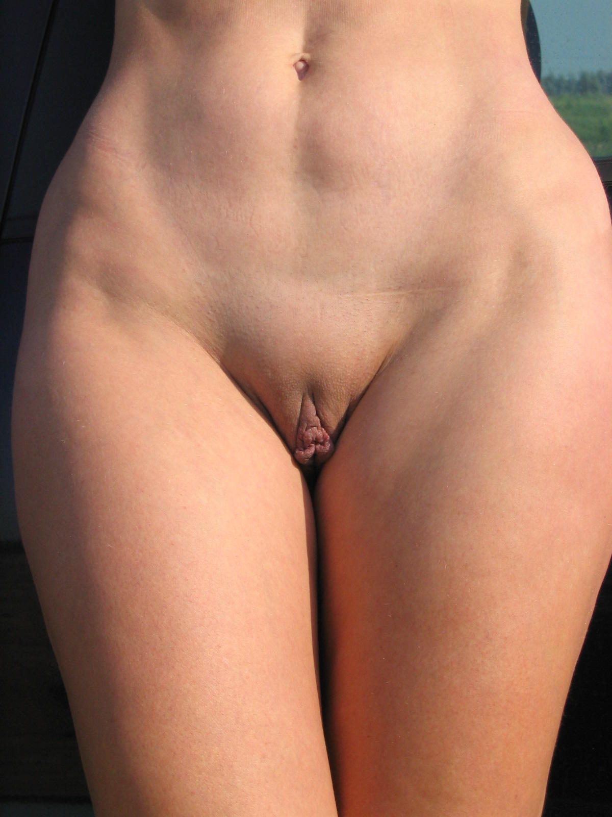 Hypertrophy of Labia Minora, prior to surgery. The "inner lips" are clearly visible in the Cleft of Venus